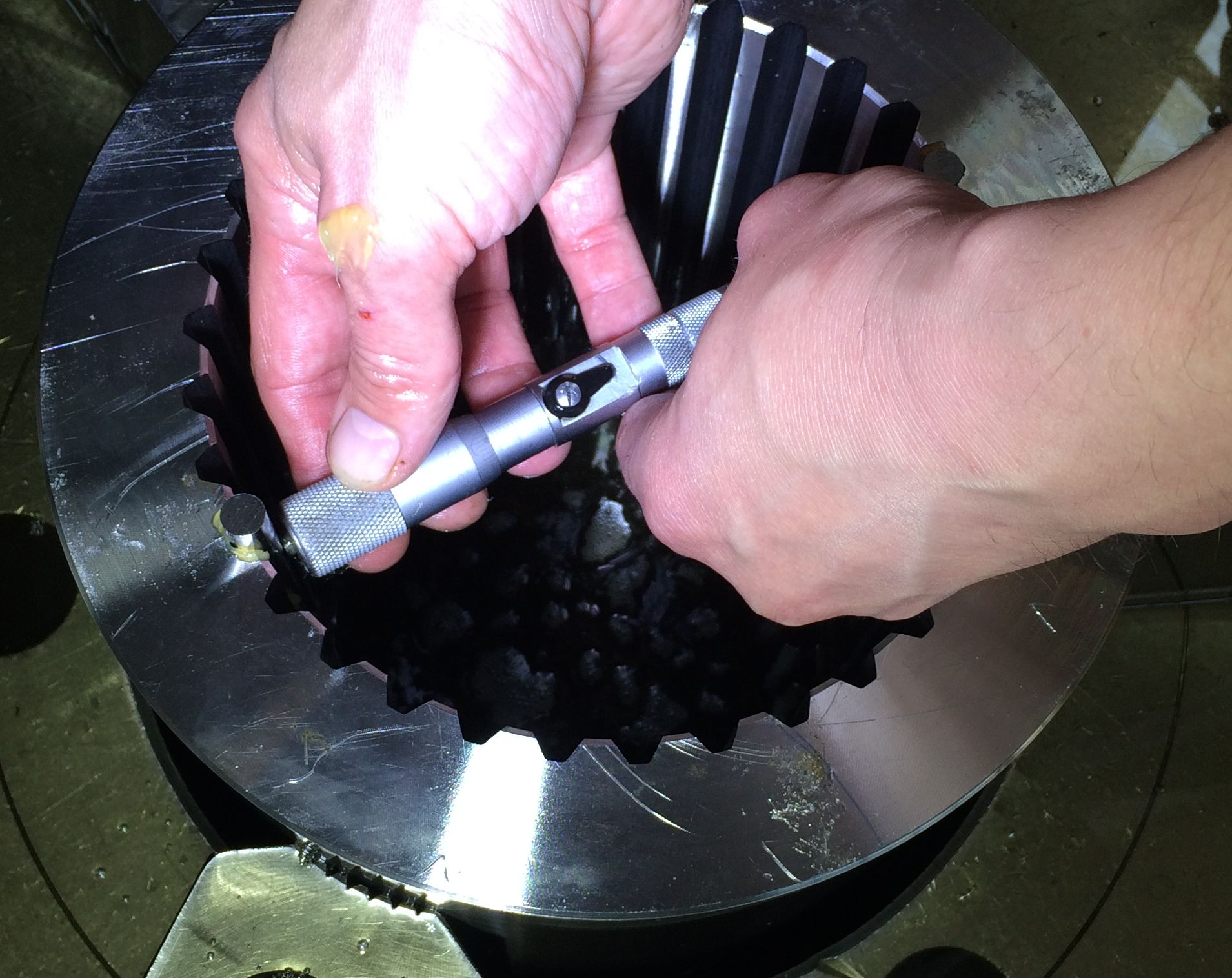 Measuring an internal gear